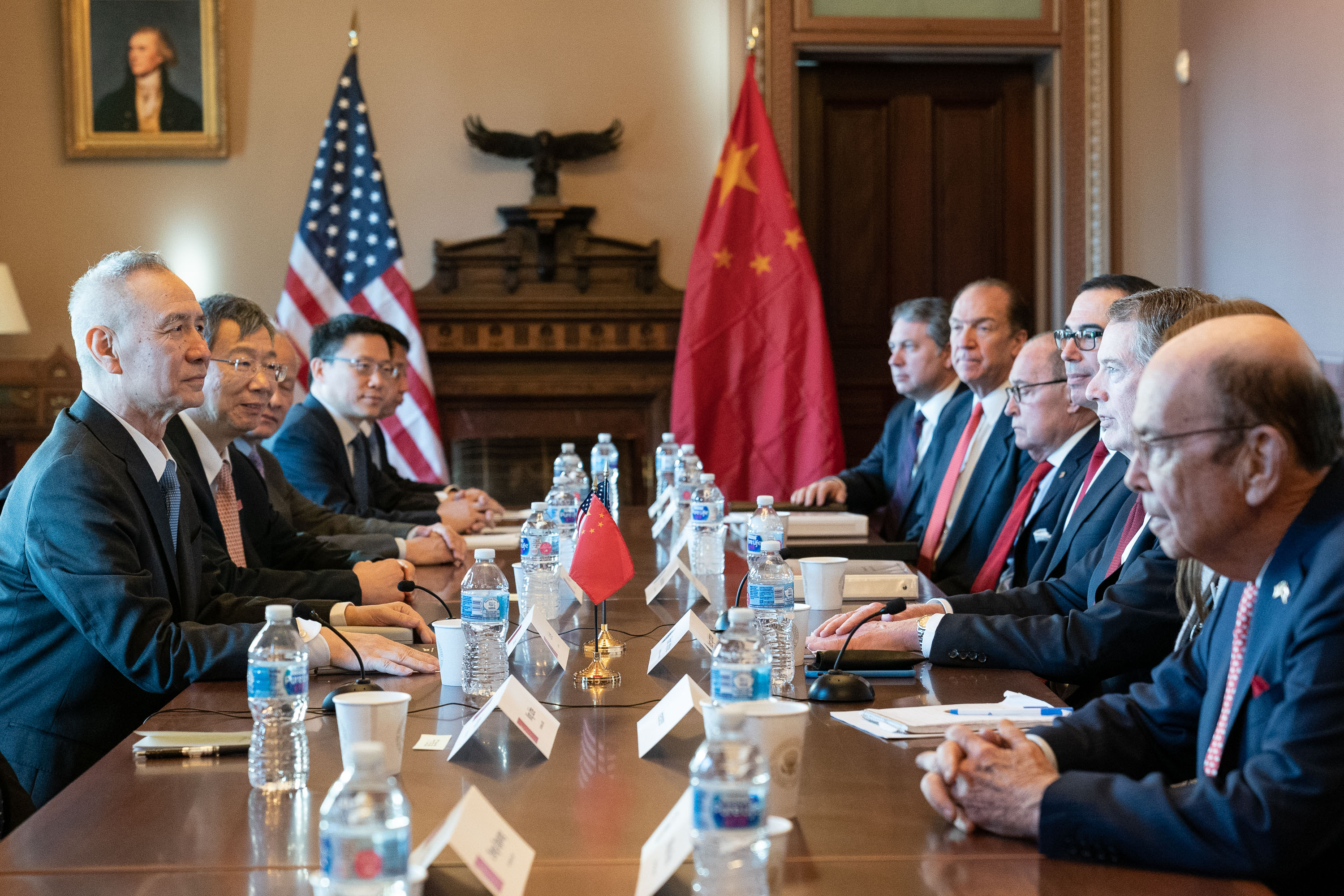 United States Trade Representative Ambassador Robert Lighthizer, senior staff and cabinet members meet with Chinese Vice Premier Liu He and members of his delegation for the U.S. – China trade talks Wednesday, Jan. 30, 2019, in the Diplomatic Reception Room in the Eisenhower Executive Office Building at the White House. (Official White House Photo by Andrea Hanks)